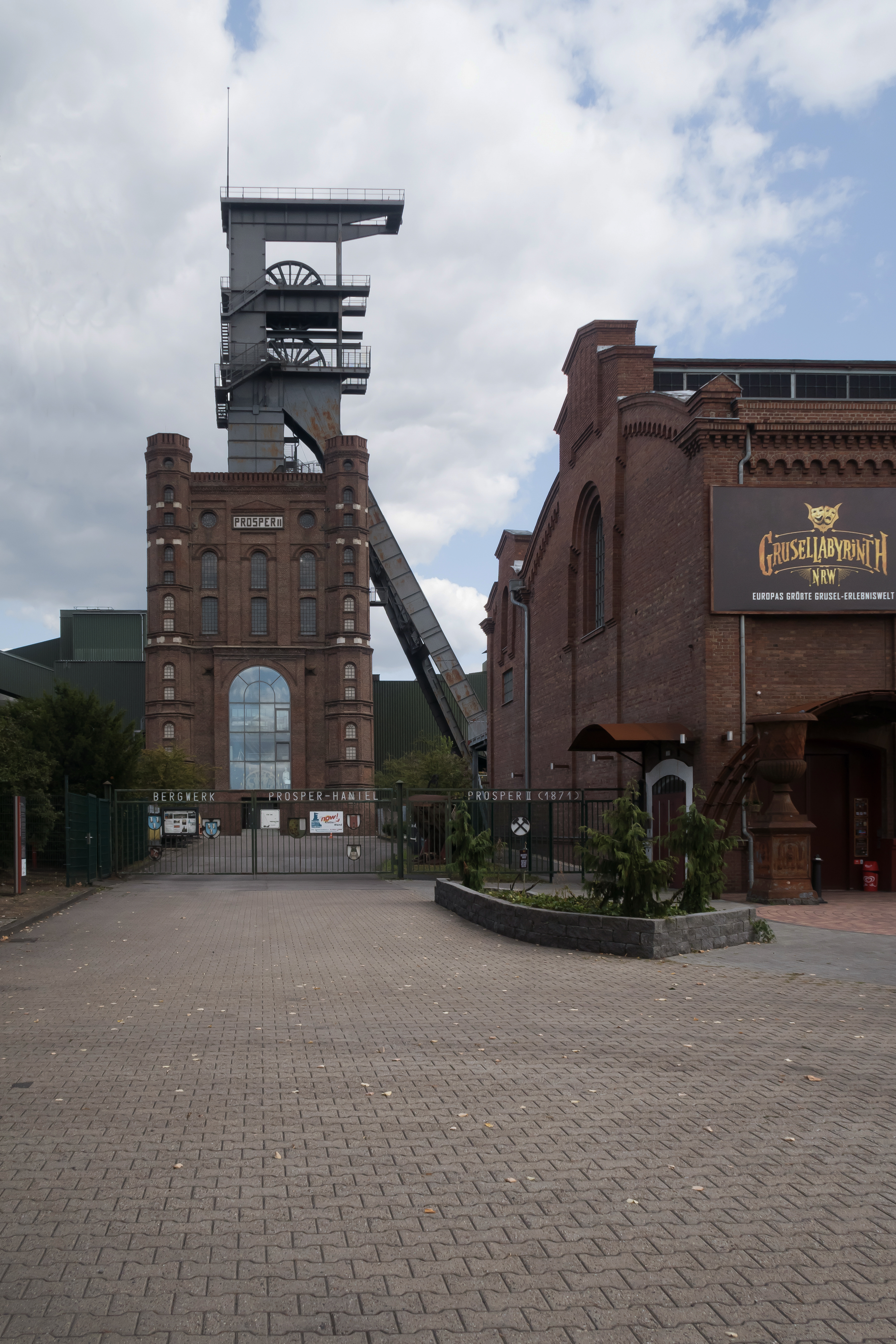 Bottrop, coal mine Prosper-HanielThis is a photograph of an architectural monument., no. 27